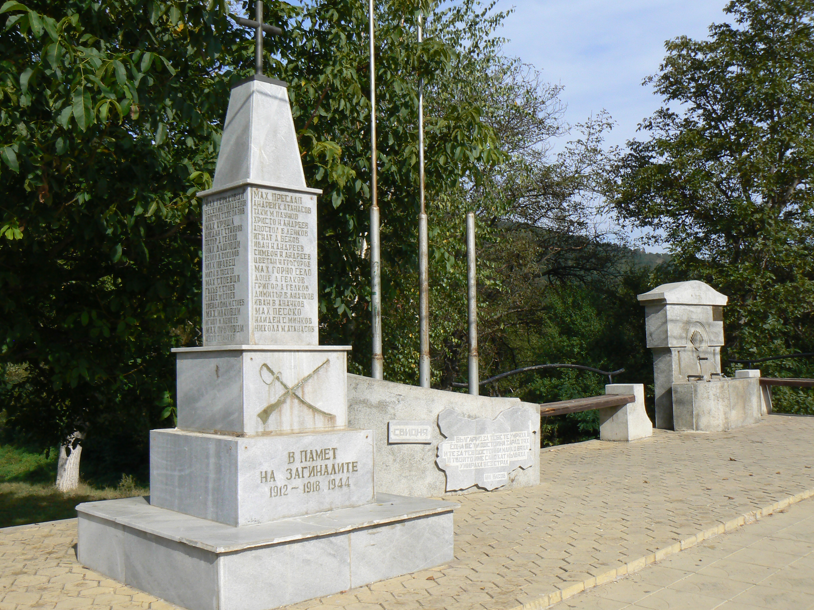 The war memorial and the drinking fountain in village Svidnya, Bulgaria